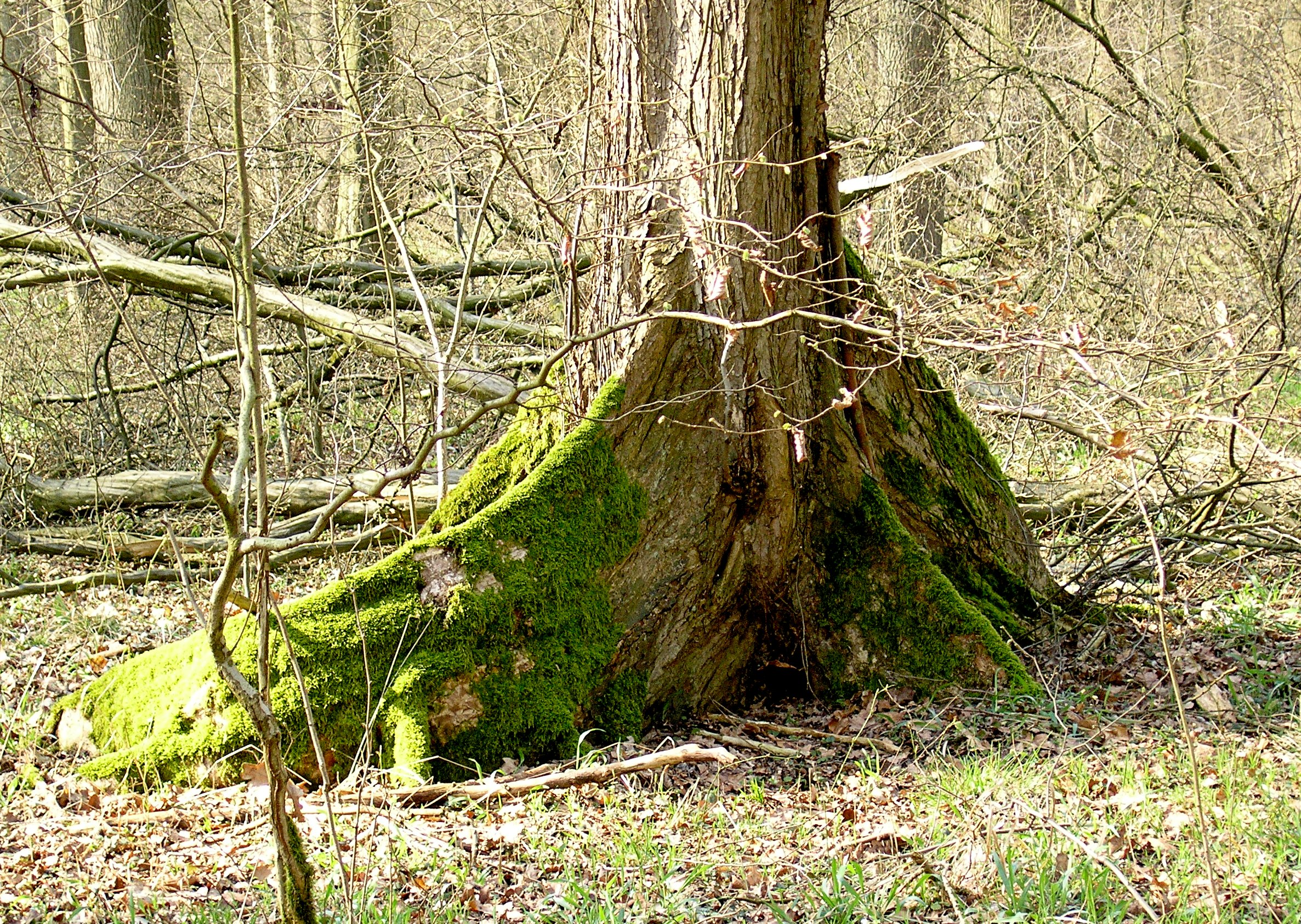 Buttress root of Ulmus laevis. Location: Münster, NRW, Germany